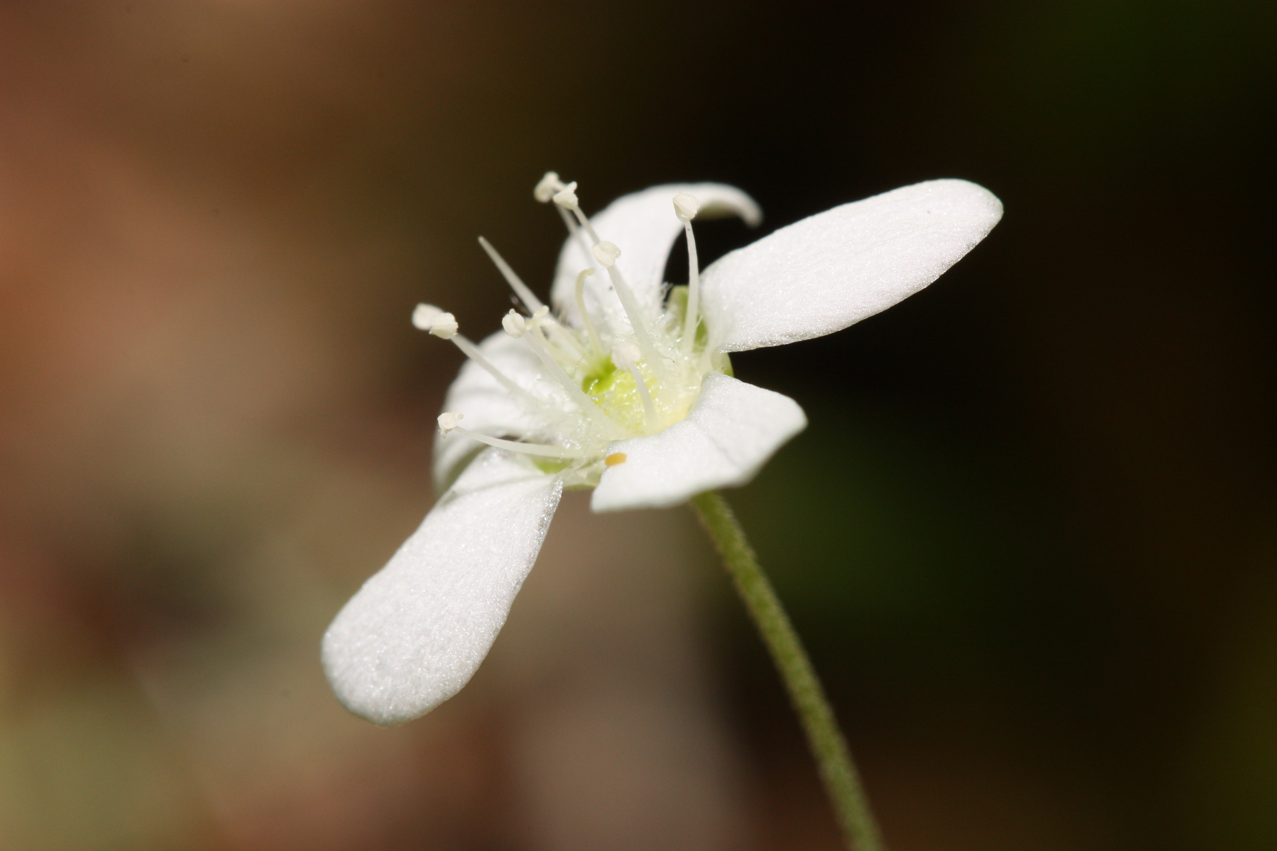 Grove or Blunt-leaf Sandwort